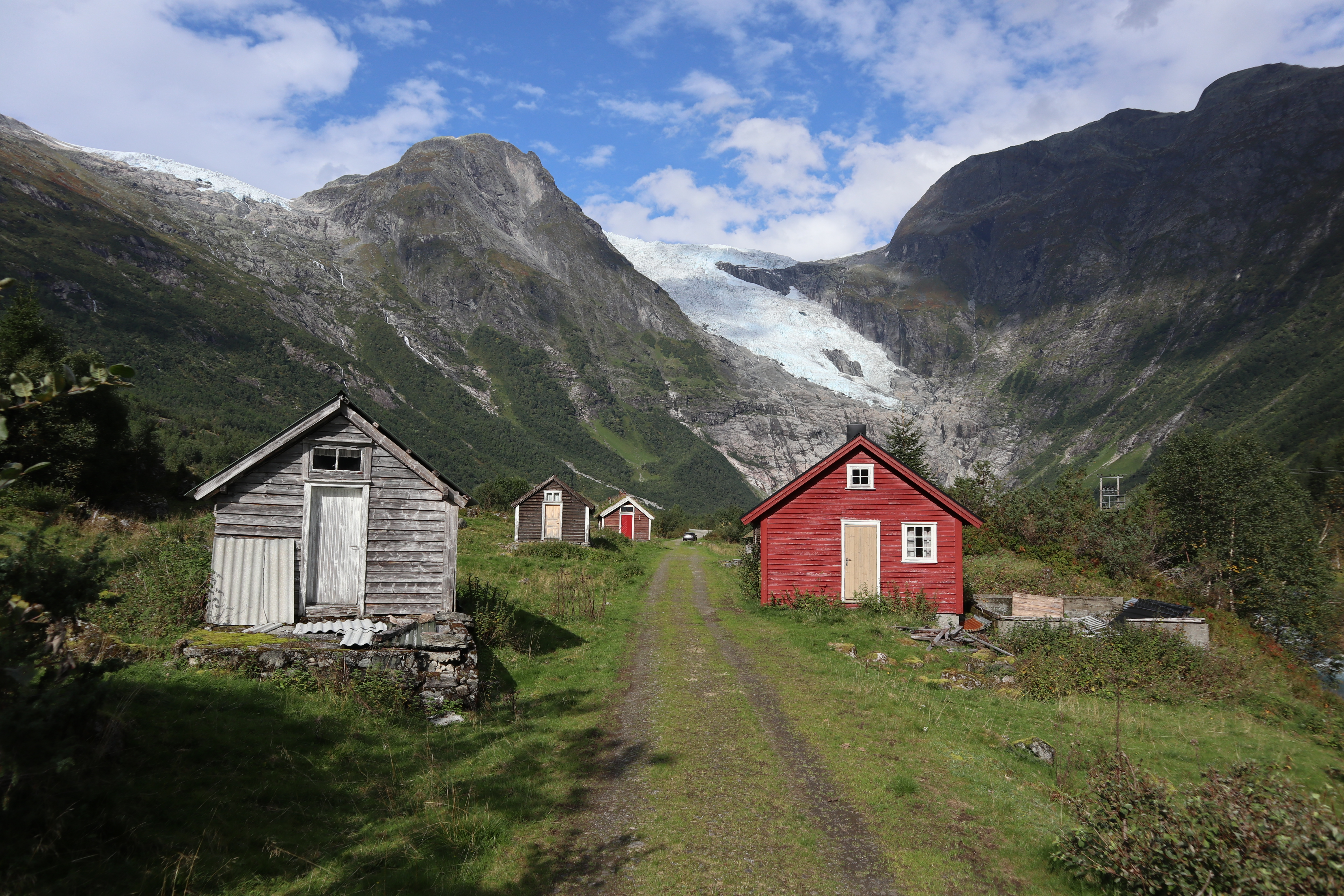 Houses along a road mountain and glacier in background